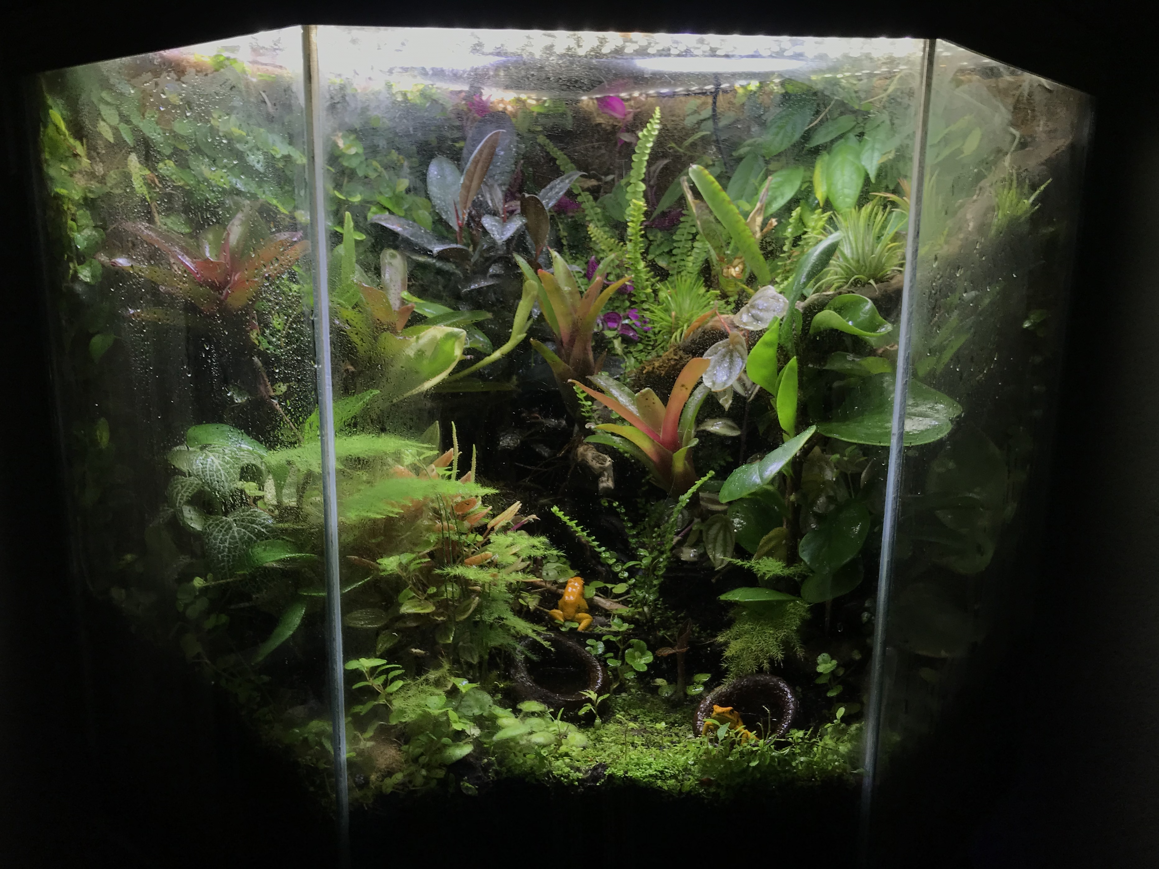 Dart frogs (Phyllobates terribilis) in a heavily planted bioactive enclosure